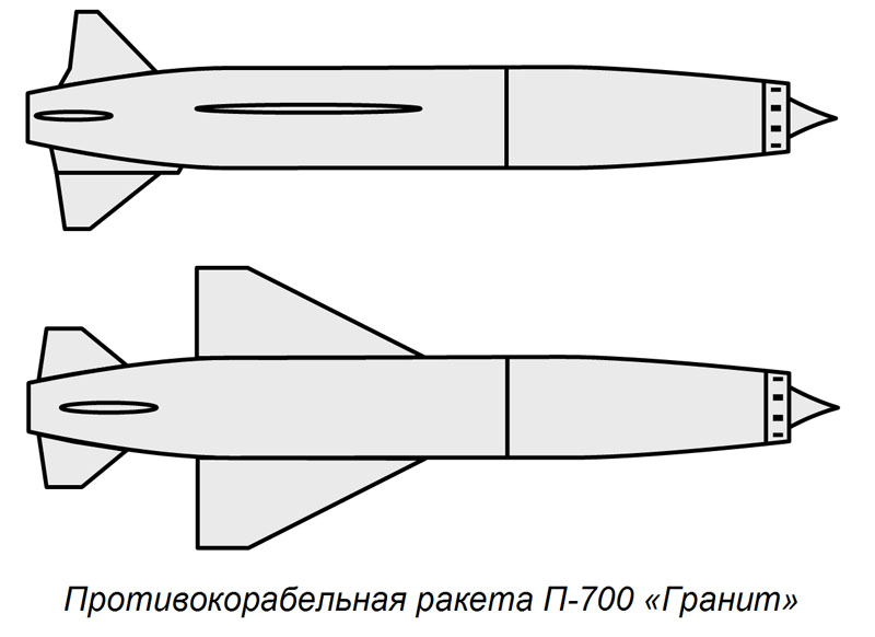 Russian antiship missile P-700 Granit